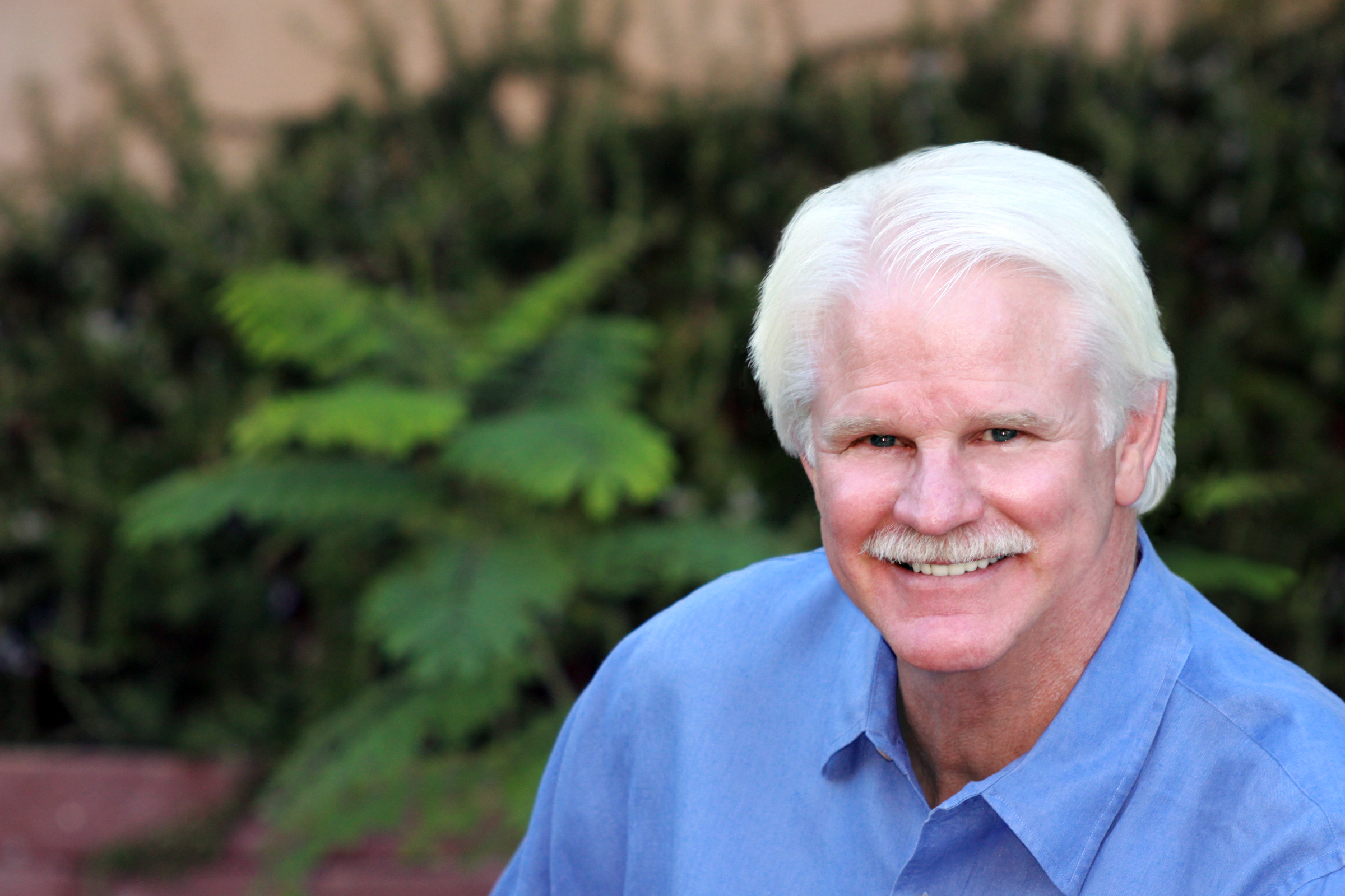 This picture was taken in early August of 2009.